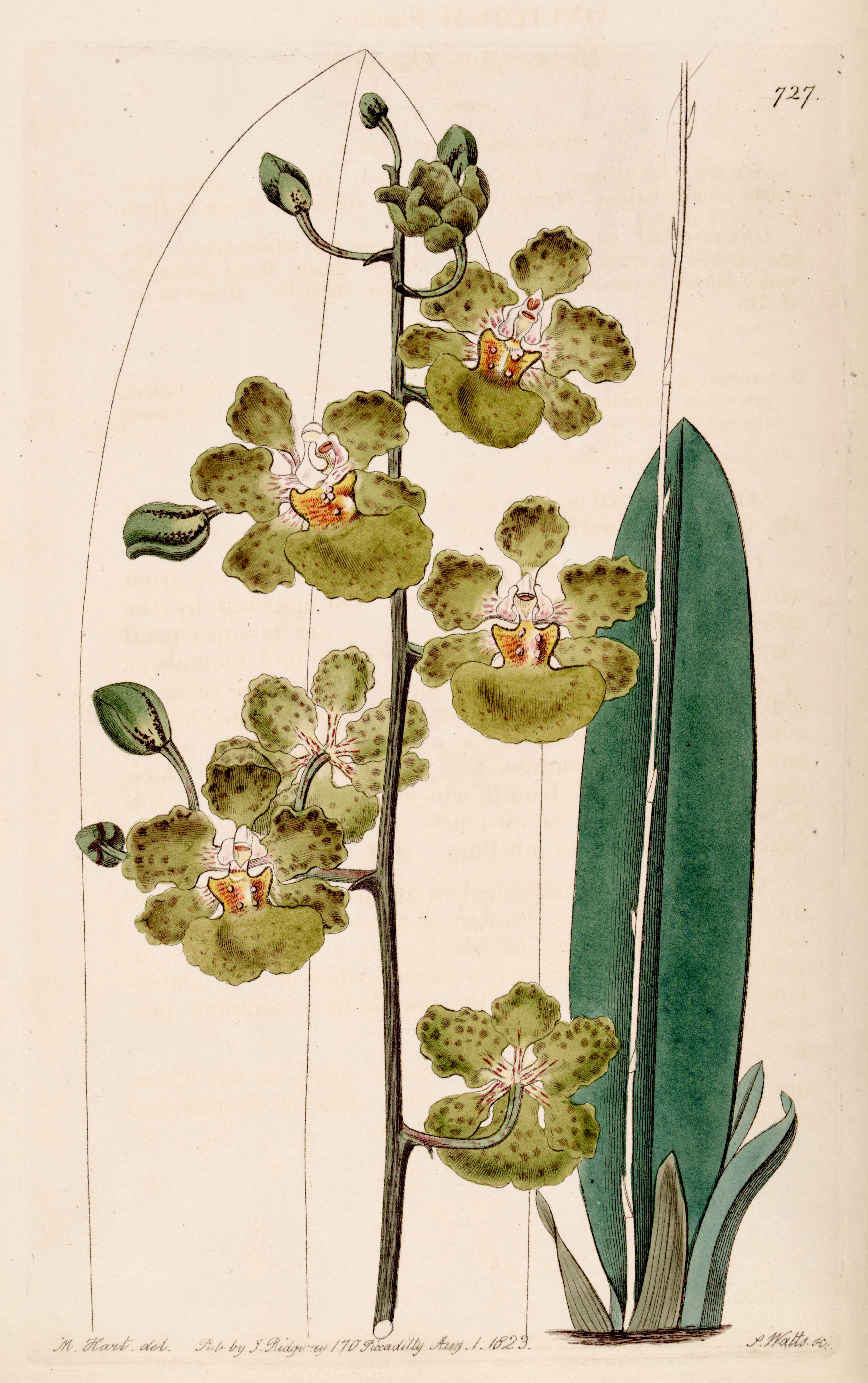 Illustration of Oncidium luridum